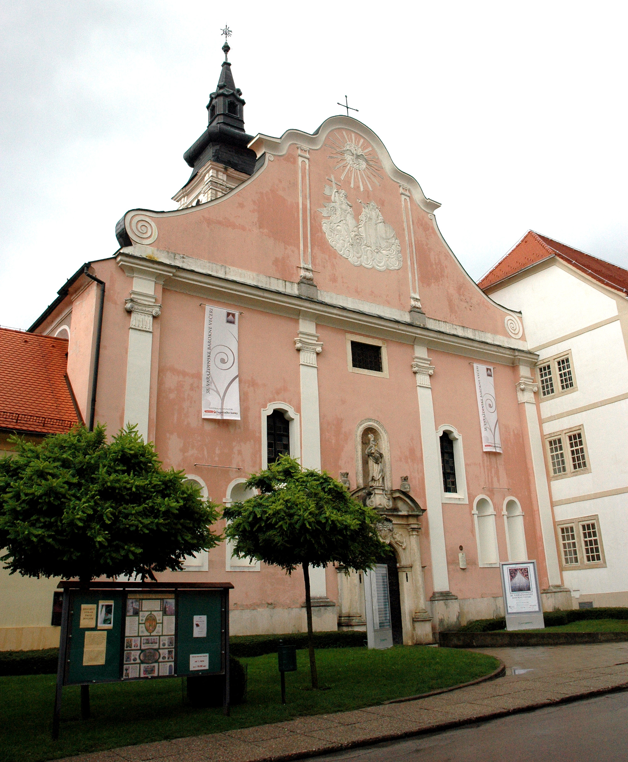 Former Jesuit church, presently Cathedral in Varaždin